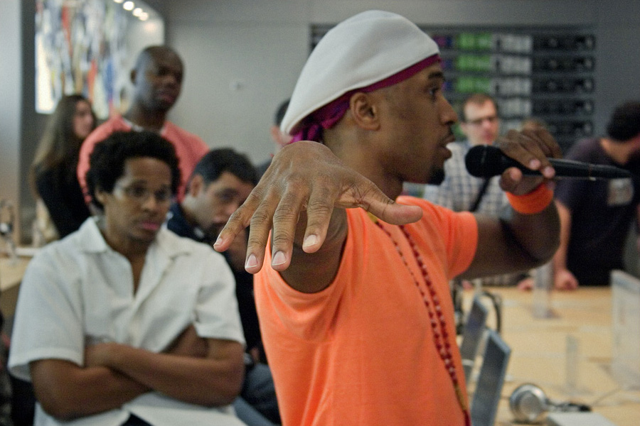 Ali Shaheed Muhammad speaking at the Apple Store on Fifth Avenue in New York City on August 13th, 2006.